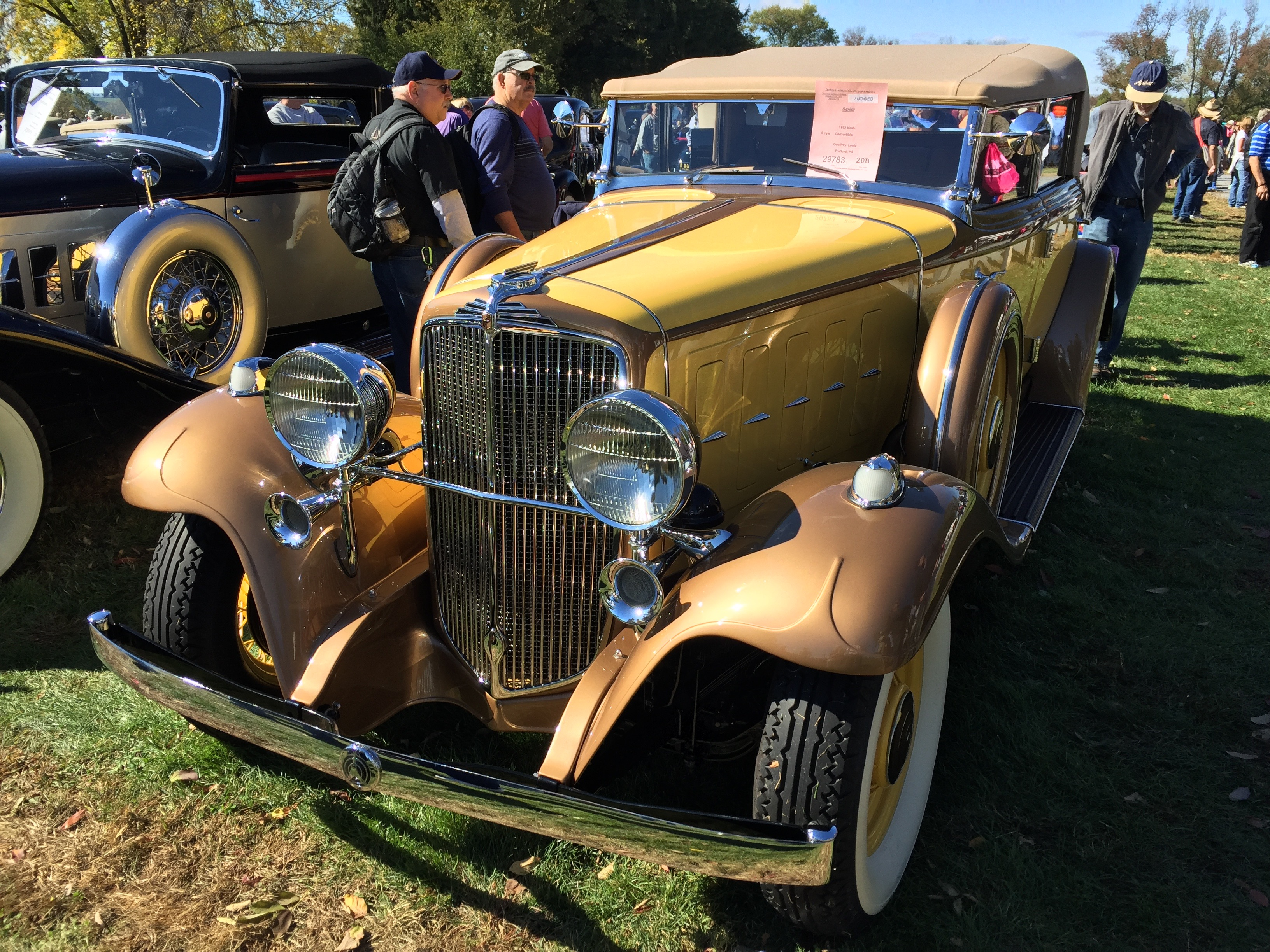 1932 Nash Advanced Eight four-door convertible (Series 1090). This Nash is large prestigious (luxury) car, and is classified by the Classic Car Club of America (CCCA) as a Full Classic. Power is the Nash twin-ignition 322 cubic-inch (5.27 L) overhead-valve straight-eight cylinder engine that features two sets of plugs, points, condensers, and coils operating from a single distributor. Other advanced features include synchromesh transmission, free-wheeling, automatic centralized chassis lubrication, as well as a suspension that is adjustable from inside the car. Picture taken at the Antique Automobile Club of America (AACA) 2015 Hershey meet that is held every October in Pennsylvania.